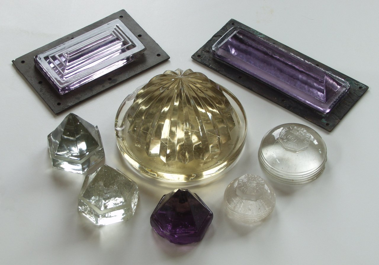 Group of original deck prisms from my personal collection.